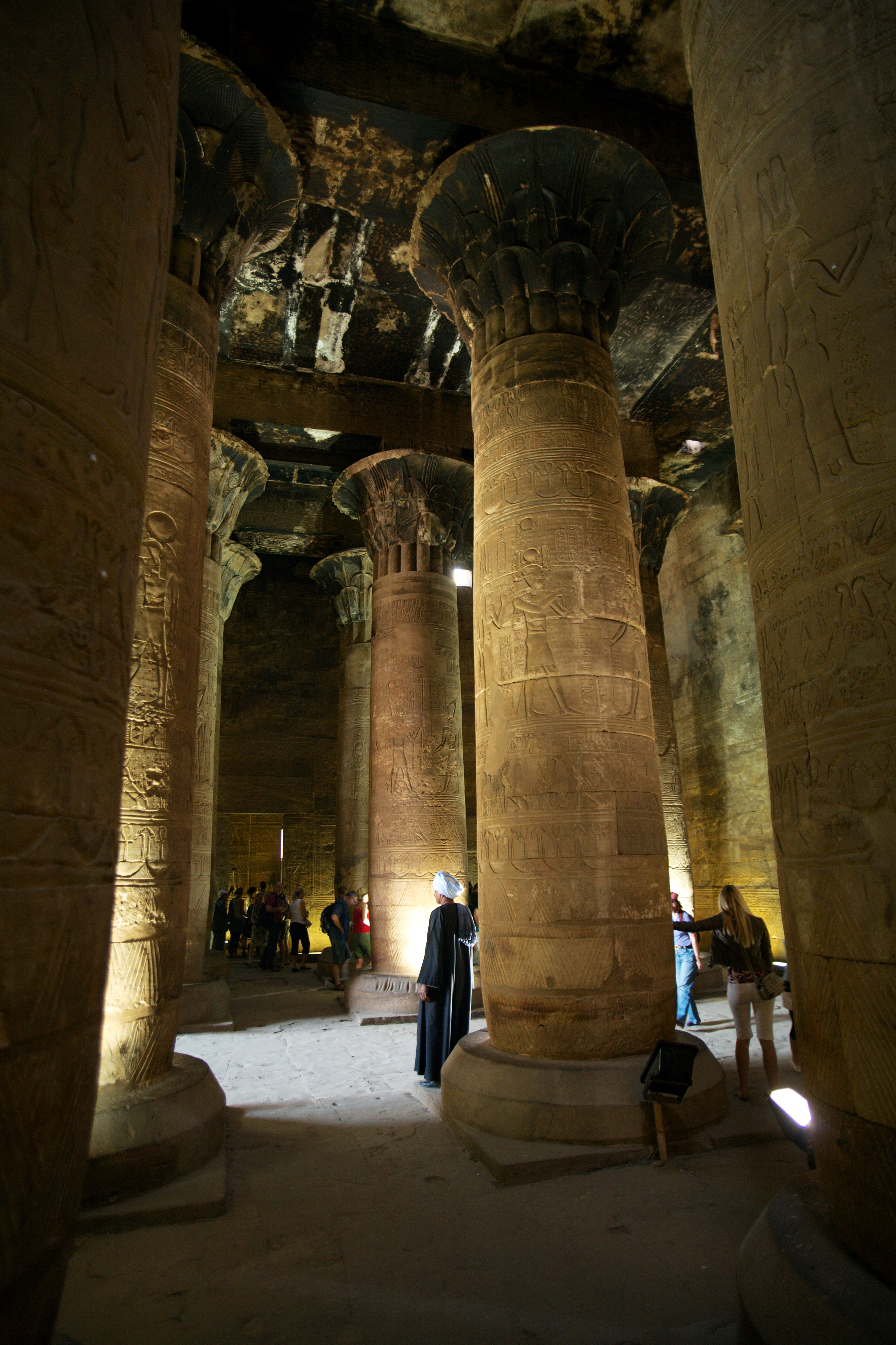 Hypostyle halls in Edfu Temple